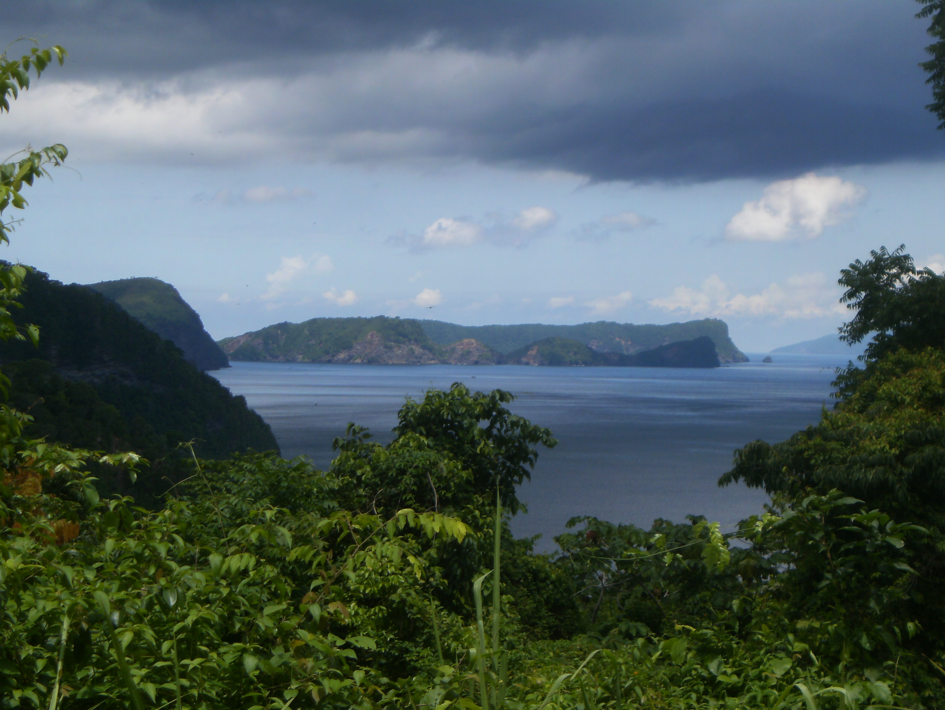 Huevos Island (center) and Second Boca in Trinidad and Tobago. Island behind Huevos is Chacachacare. Landform in the distance on the right is Venezuela. View from the Tracking Station in Chaguaramas.